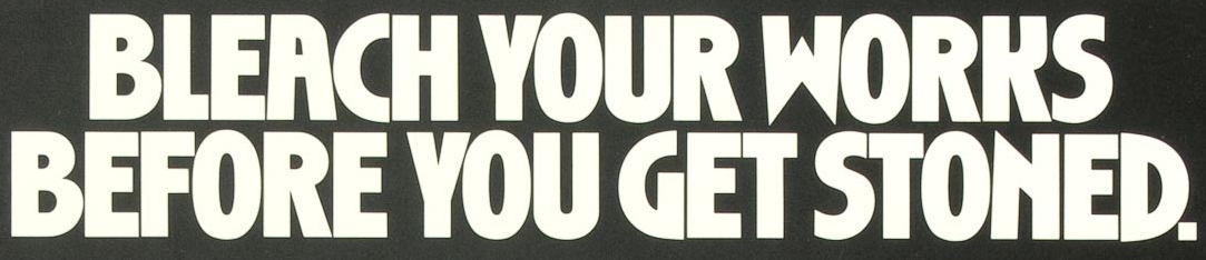 The text "Bleach your works before you get stoned" used on an AIDS prevention poster in the 1980s in the United States. The poster advised heroin addicts to bleach their needles before use. This poster inspired Nirvana to name their debut album Bleach.